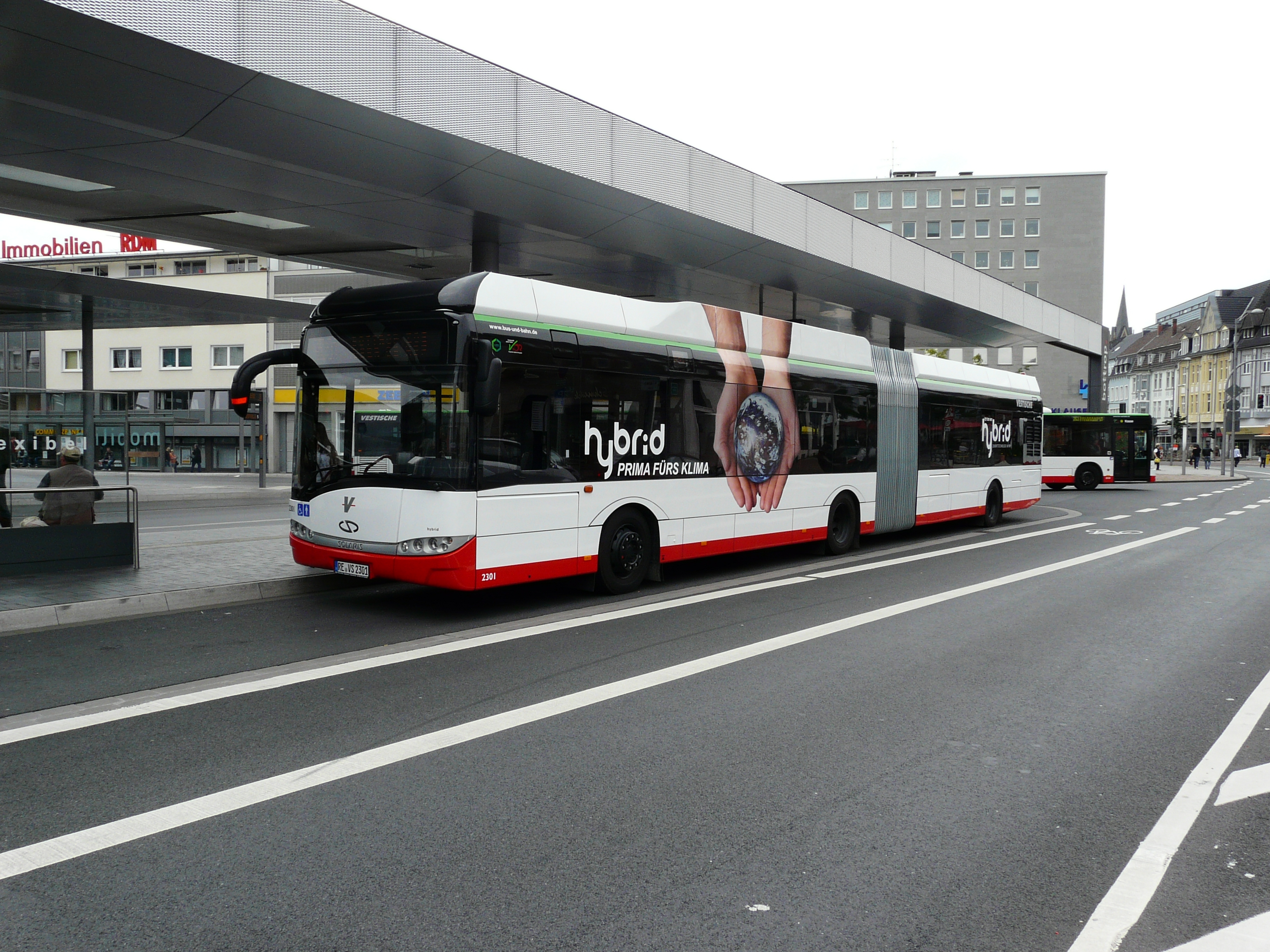 Solaris Urbino 18 DIWAhybrid bus (#2301, reg. RE-VS 2301) in Bottrop, Germany. Built 2011, Vestische Straßenbahnen GmbH from Herten operator.